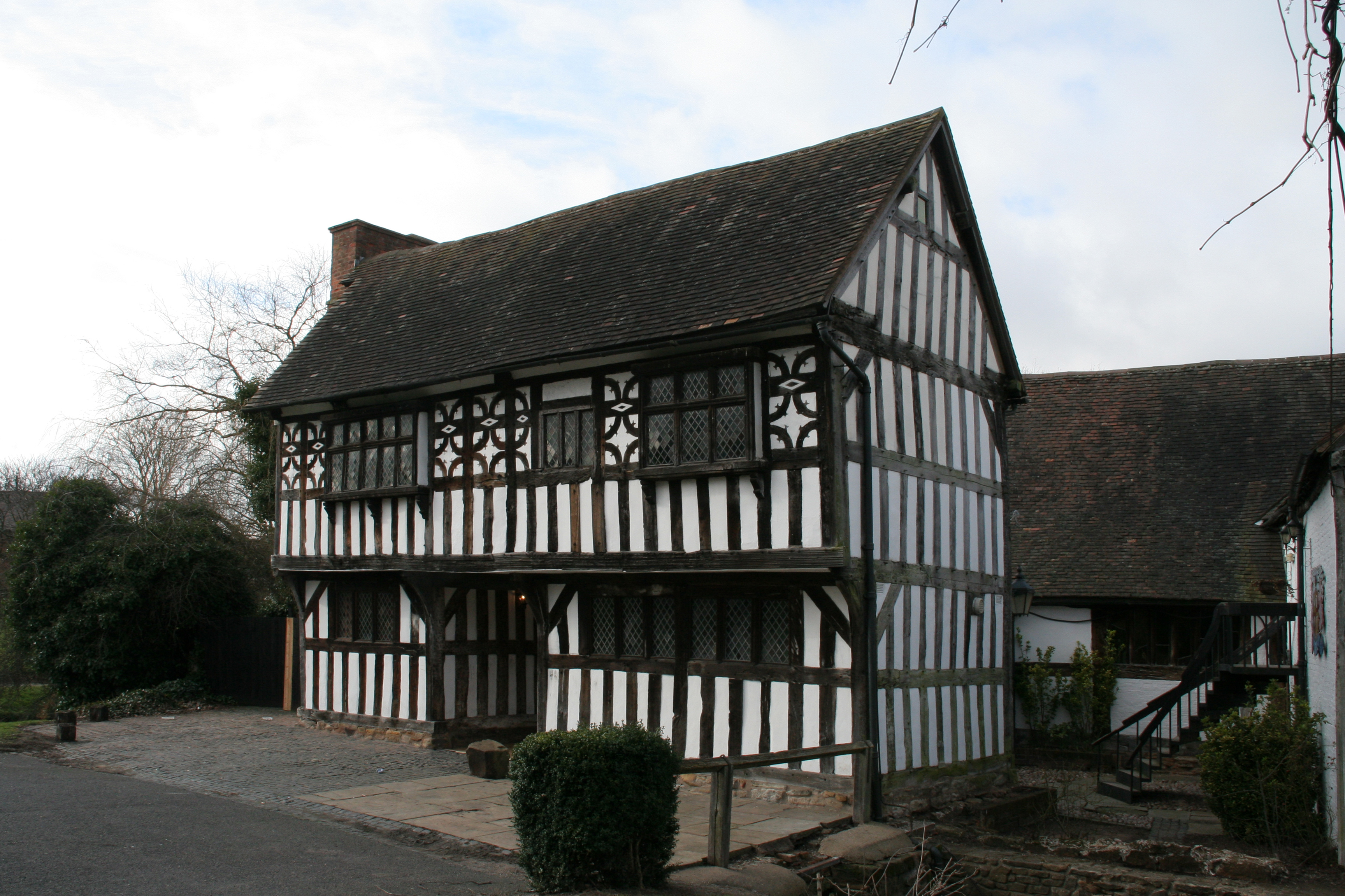 West Bromwich Manor House. Built by the de Marnham family in the late 1200s as the centre of their agricultural estate in West Bromwich. This is a grade 1 listed building